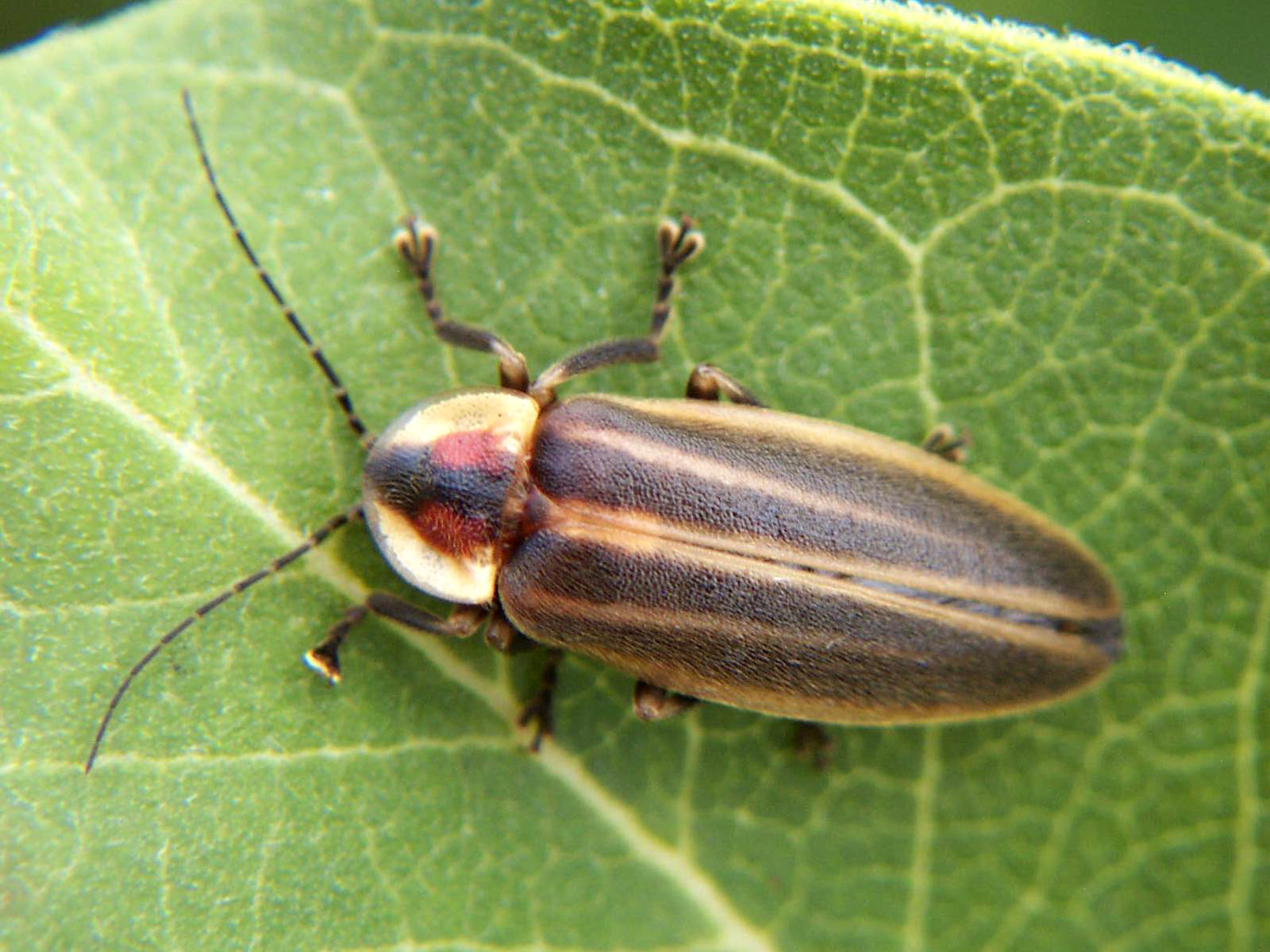 Adult beetle in the family Lampyridae, commonly called "firefly or lightning bug".